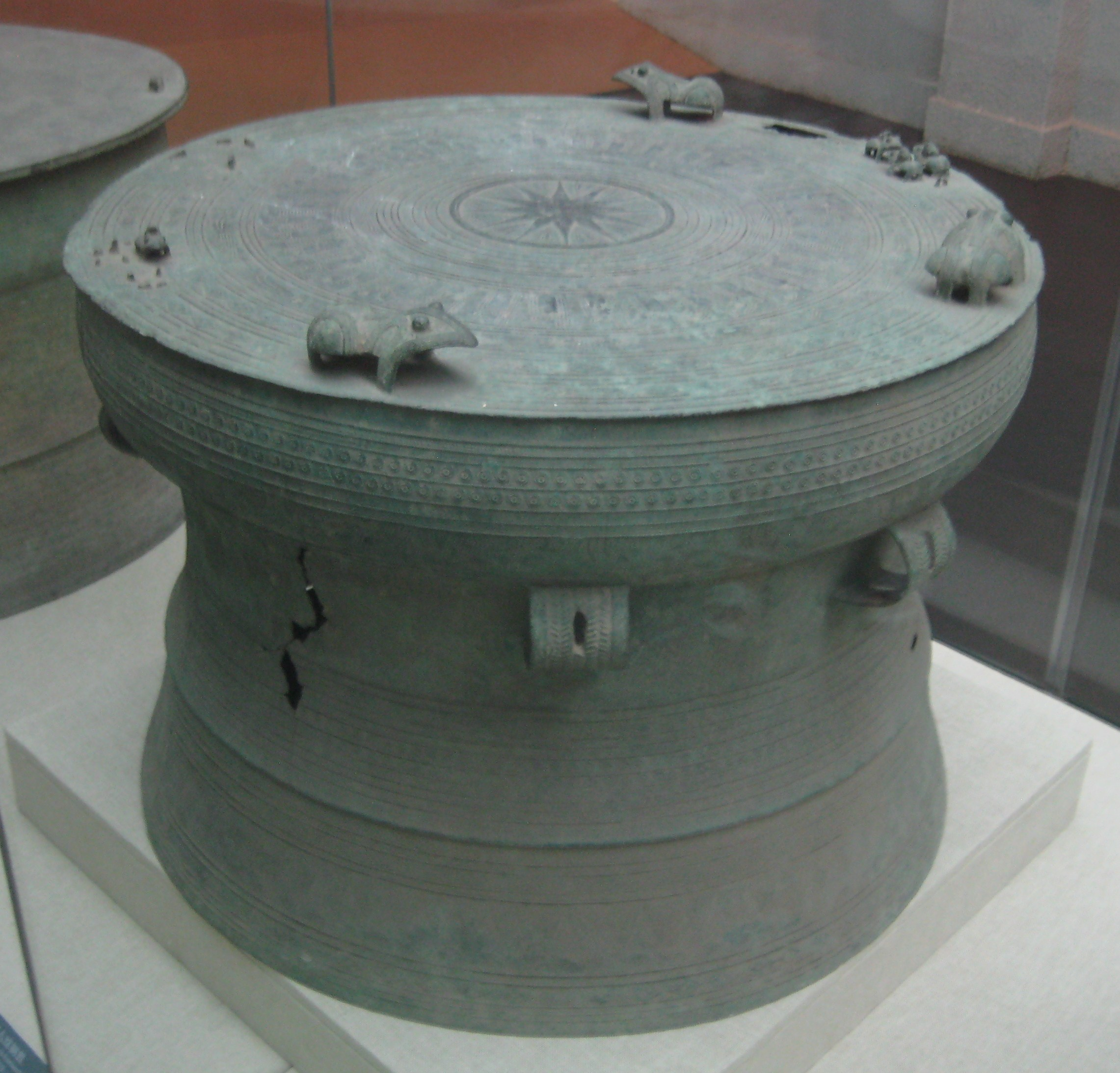 Bronze drum with frog figures on the surface, and decorated with feathered man patterns. Unearthed from Pingnan county, Guangxi, in 1958. Eastern Han dynasty (25-220).